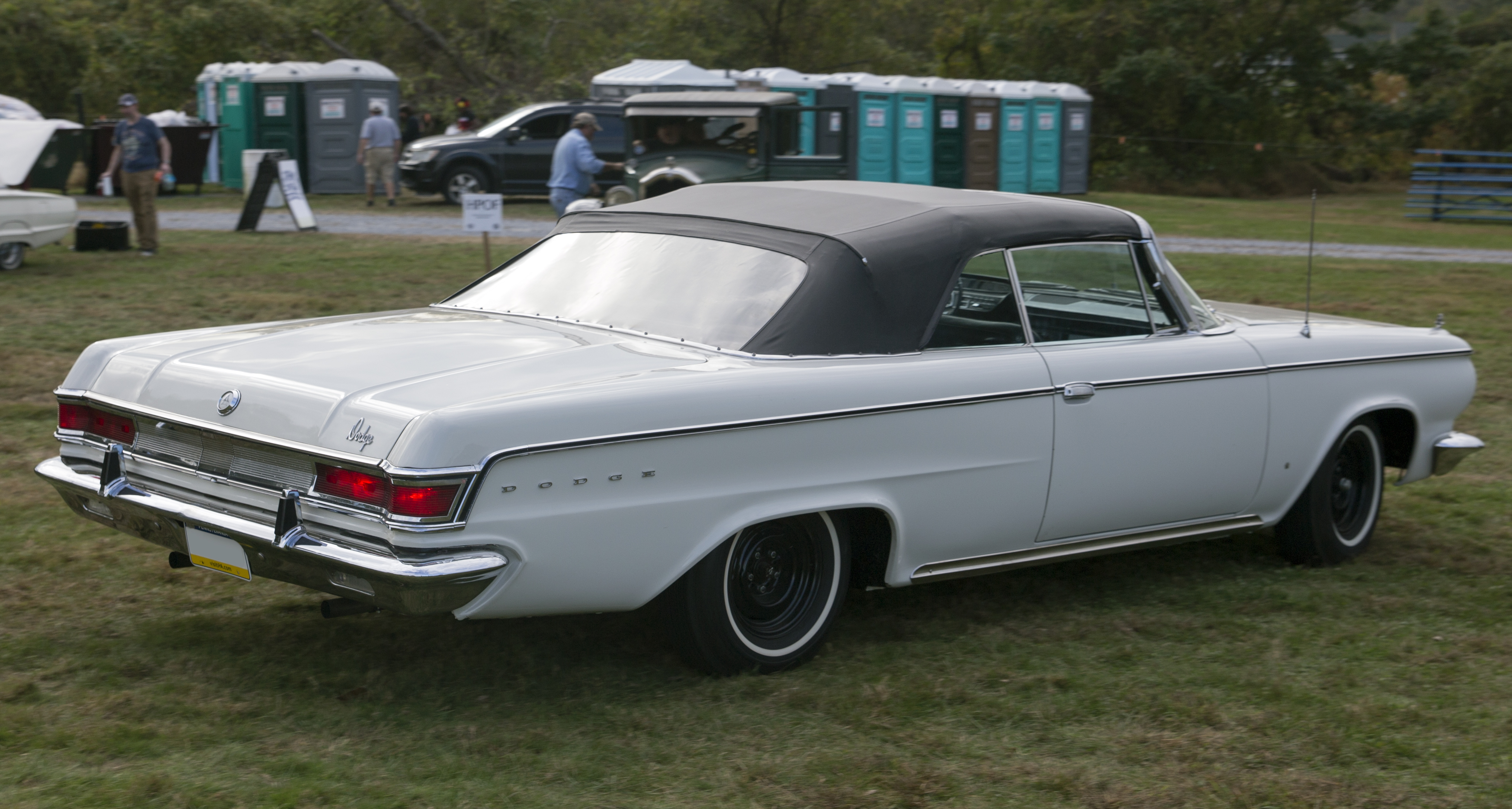 A 1964 Dodge Custom 880 Convertible leaving the show area at Hershey 2019. But where are the hubcaps?